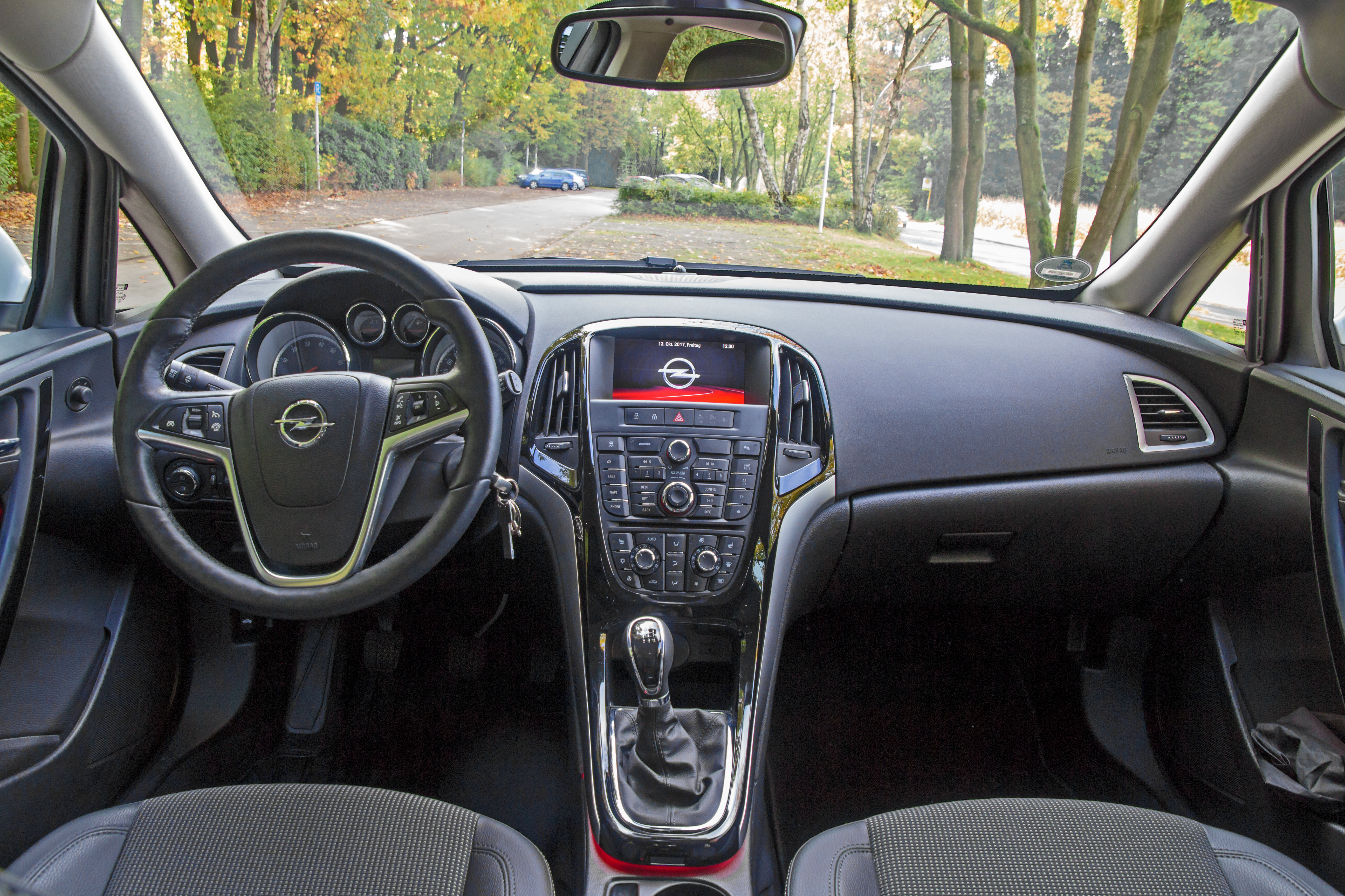 Cockpit of the car "Opel/Vauxhall Astra J" with Intellilink-multimediasystem